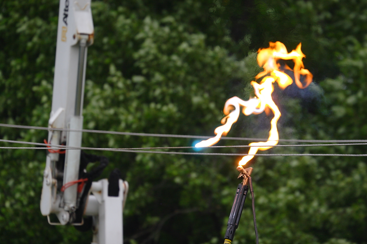 Ameren power demonstration - 1700 volts hitting a grounded hotdog. The hotdog is held near the overhead wire of an electric railway, in the jaws of a fiberglass grounding stick which is attached to the rail below, which serves as the ground conductor for the system. The hotdog serves as a human analog, illustrating the severe shock which could be received by touching the wire.